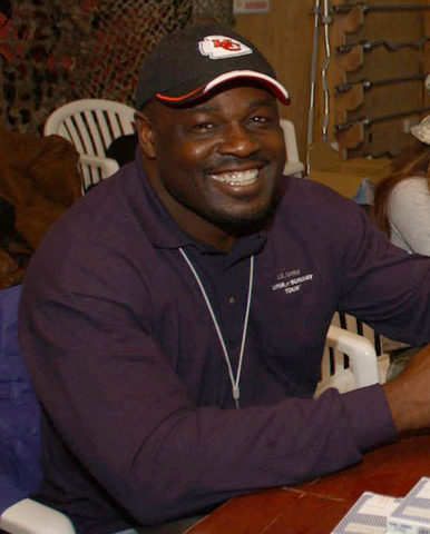 Former Kansas City Chiefs running back Christian Okoye poses with troops at Logistical Support Area Adder, Iraq, Feb. 3, 2006.